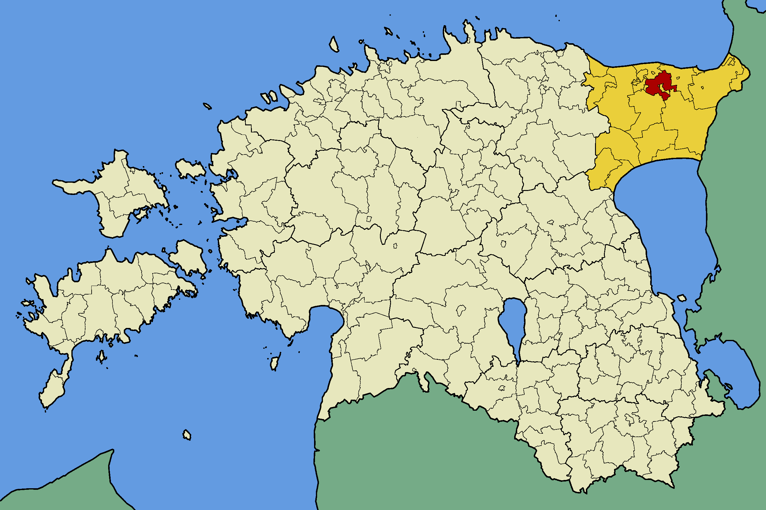 Map of Estonia with borders of municipalities (parishes). Ida-Viru county and Jõhvi municipality emphasized.